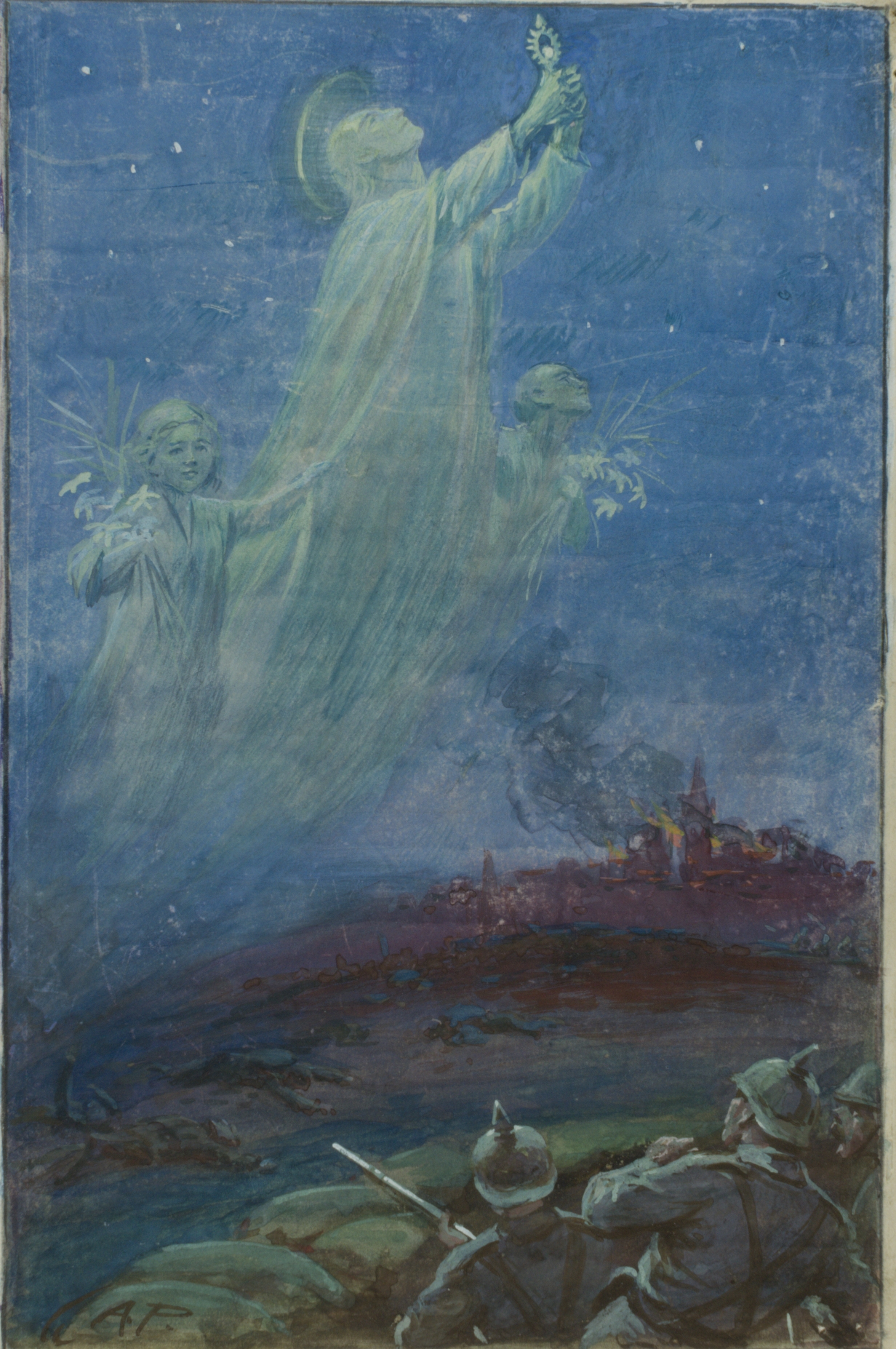 Pencil and watercolour illustration of three German soldiers in the trenches, witnessing a vision of three angels or spirits during World War One.